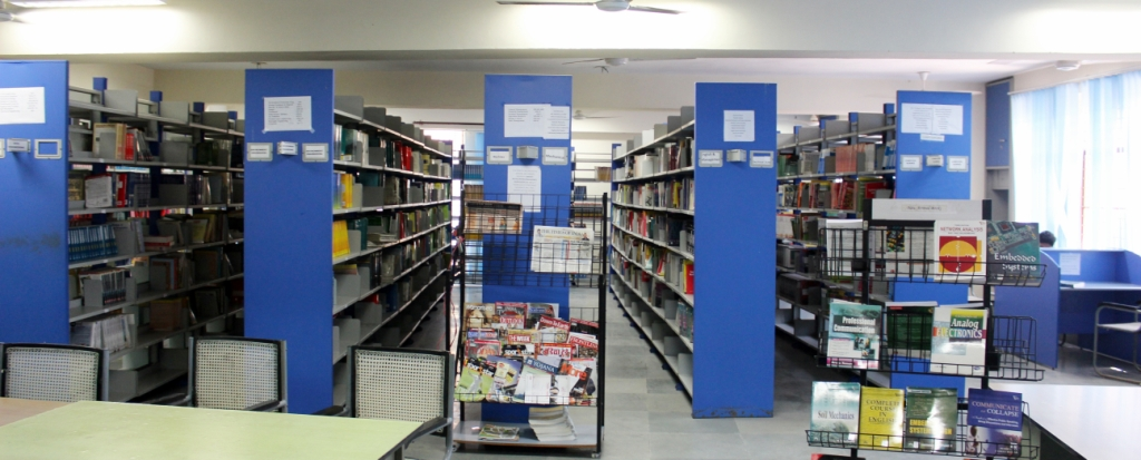 LIBRARY